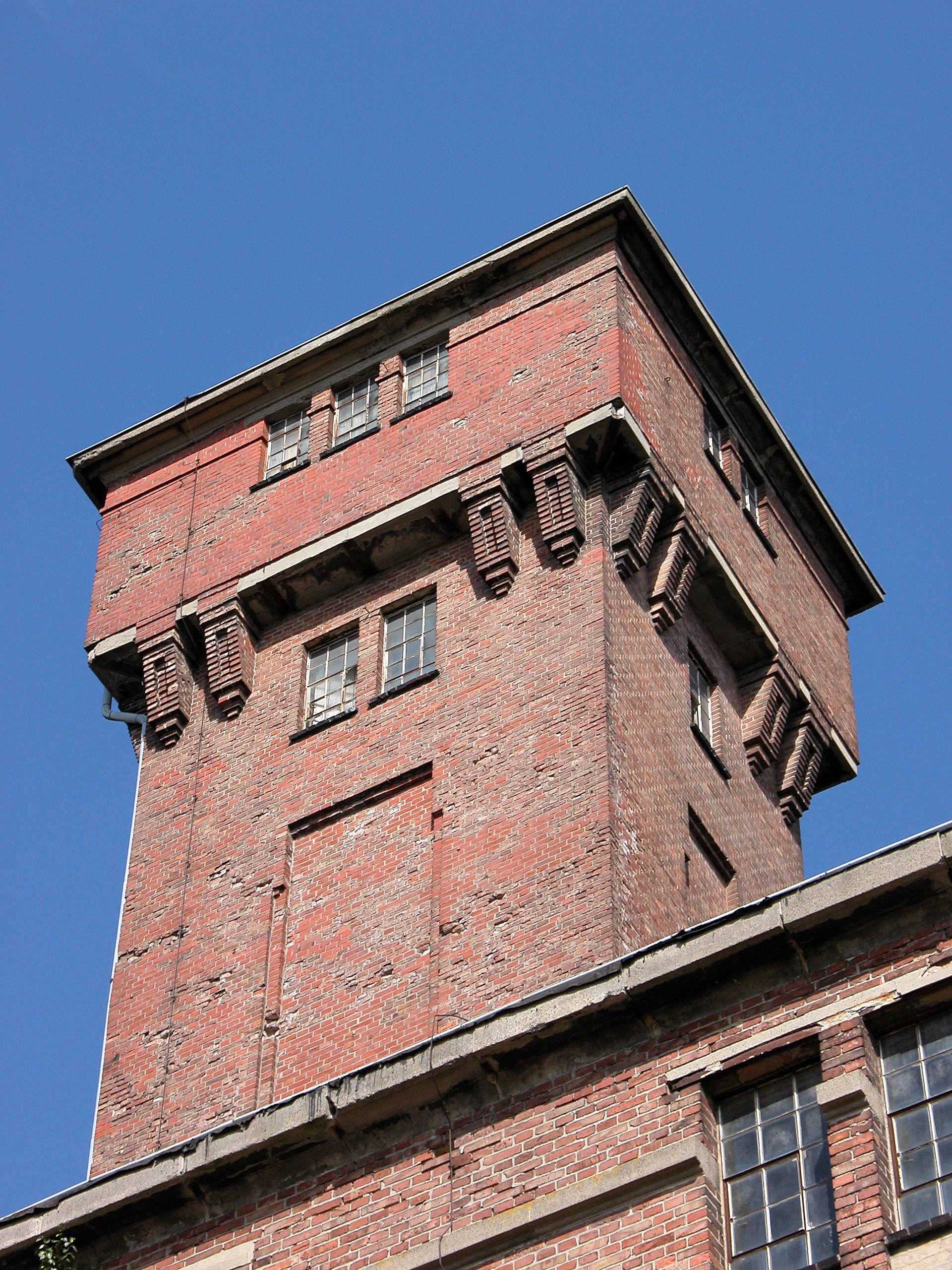 Braunschweig, Germany: Rye Mill Lehndorf. Water tower.